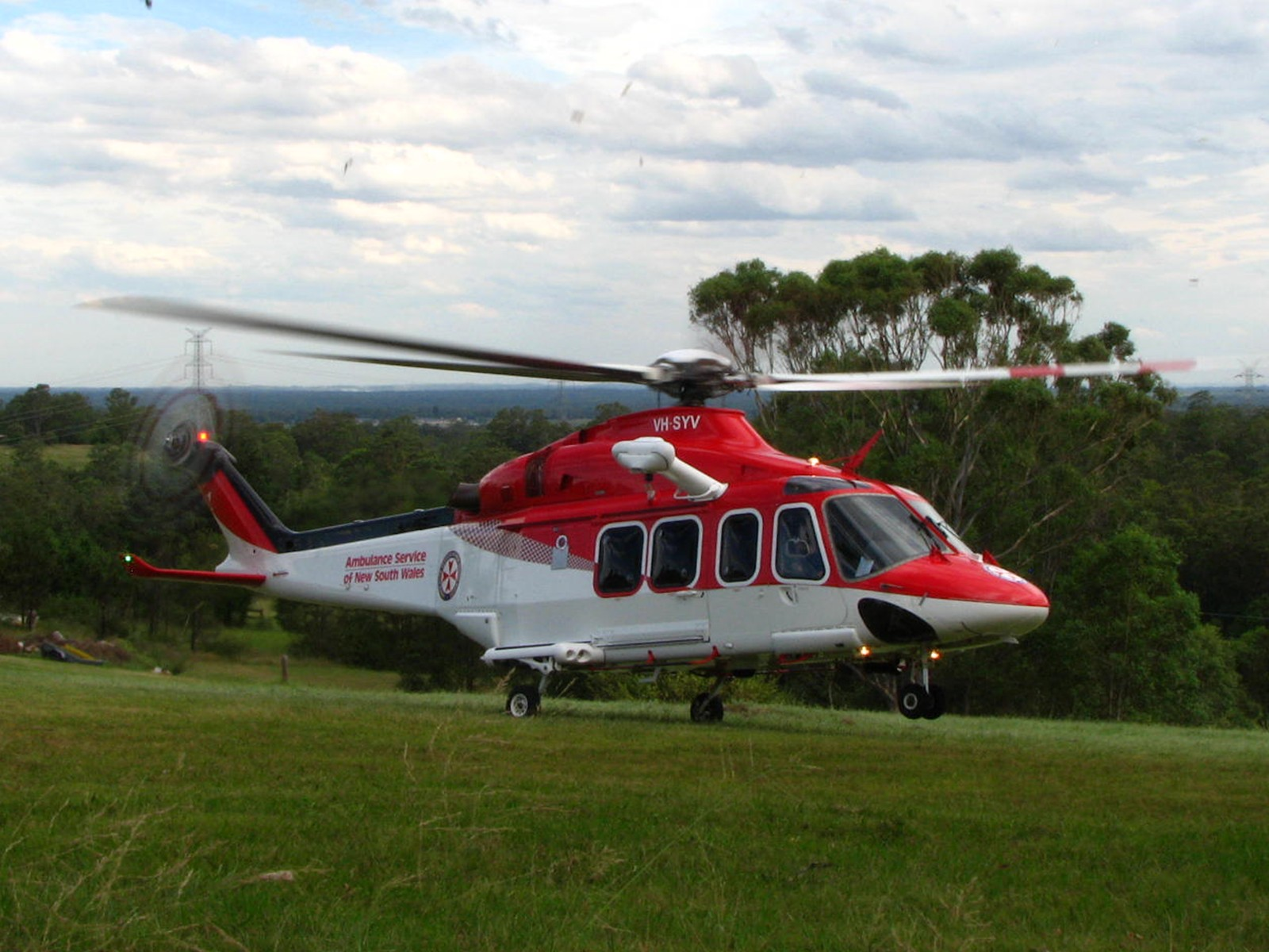 VH-SYV lifts off